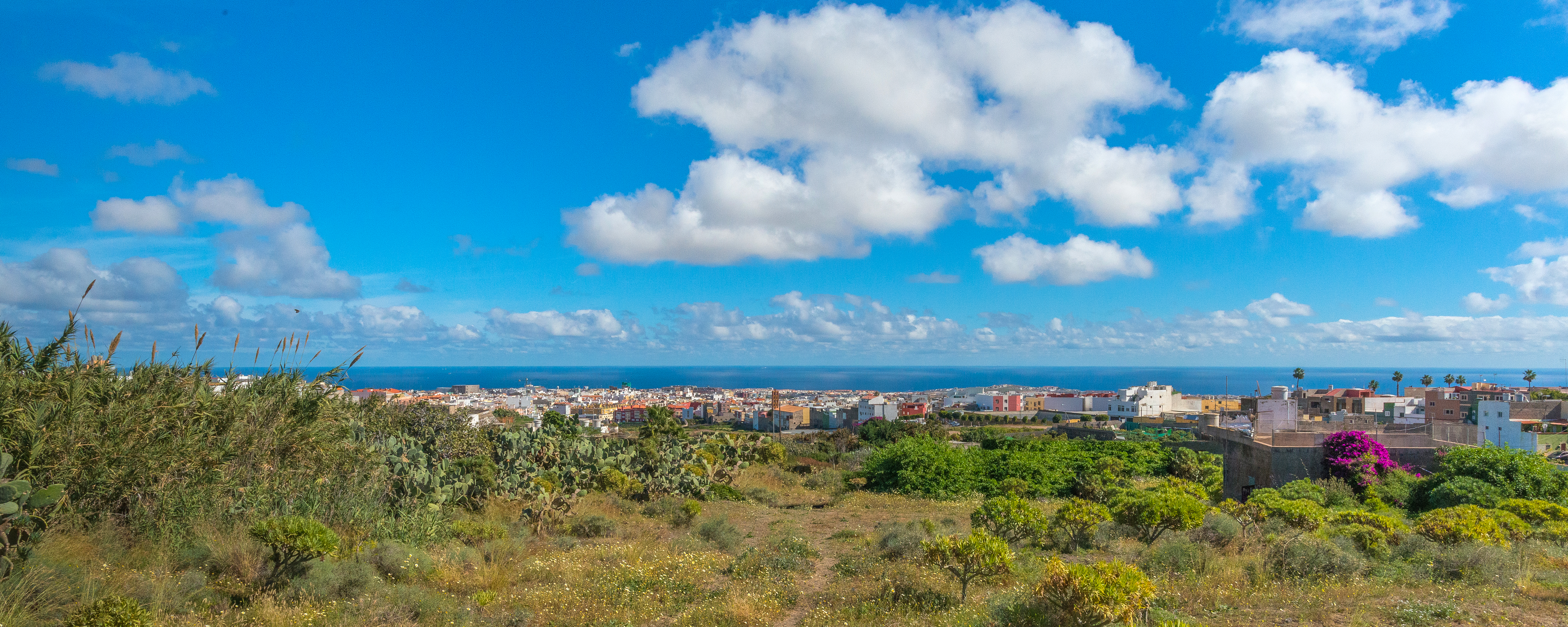 Telde Gran Canaria January 2016